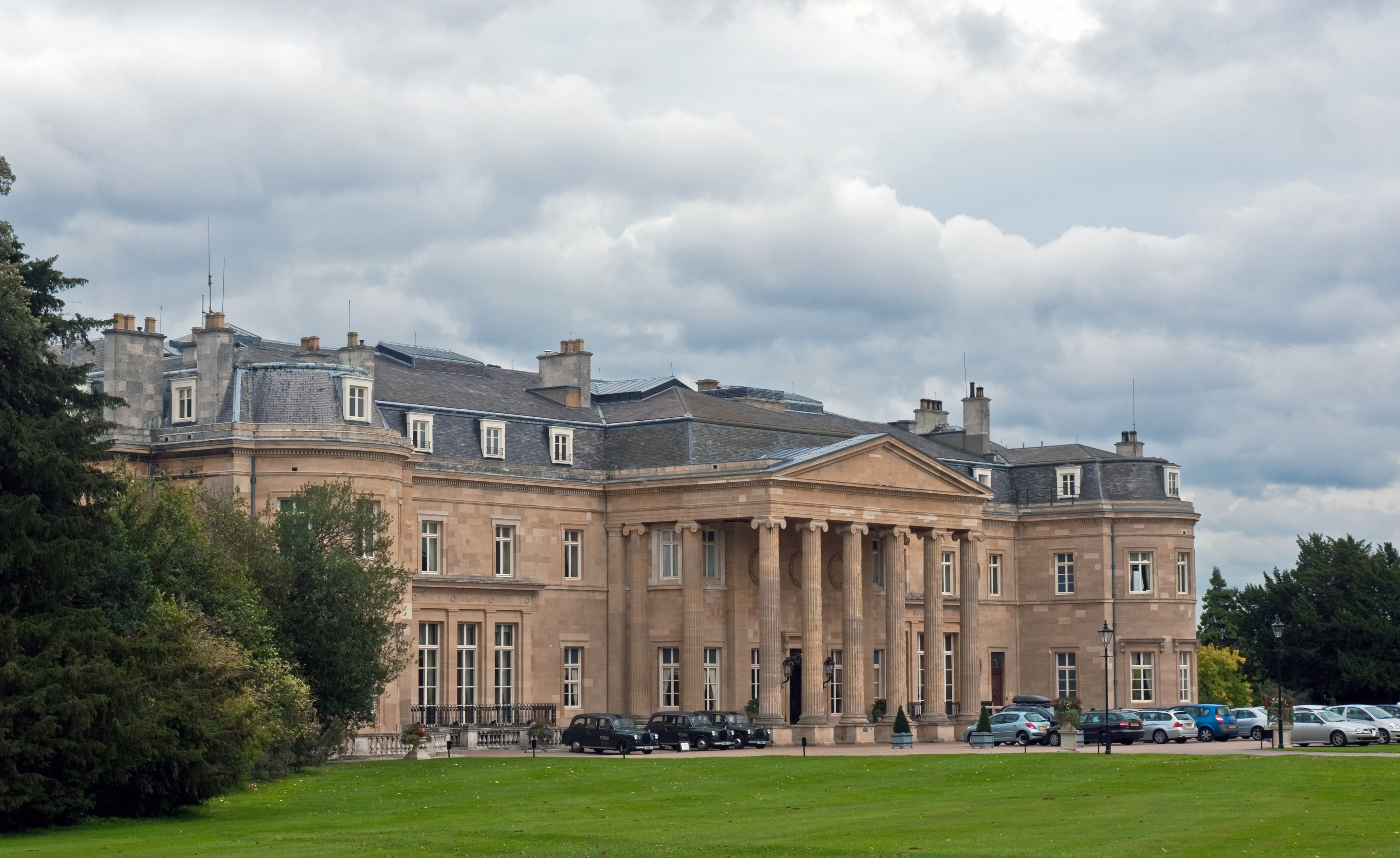 Luton Hoo, Bedfordshire, England, 19 Sept. 2010